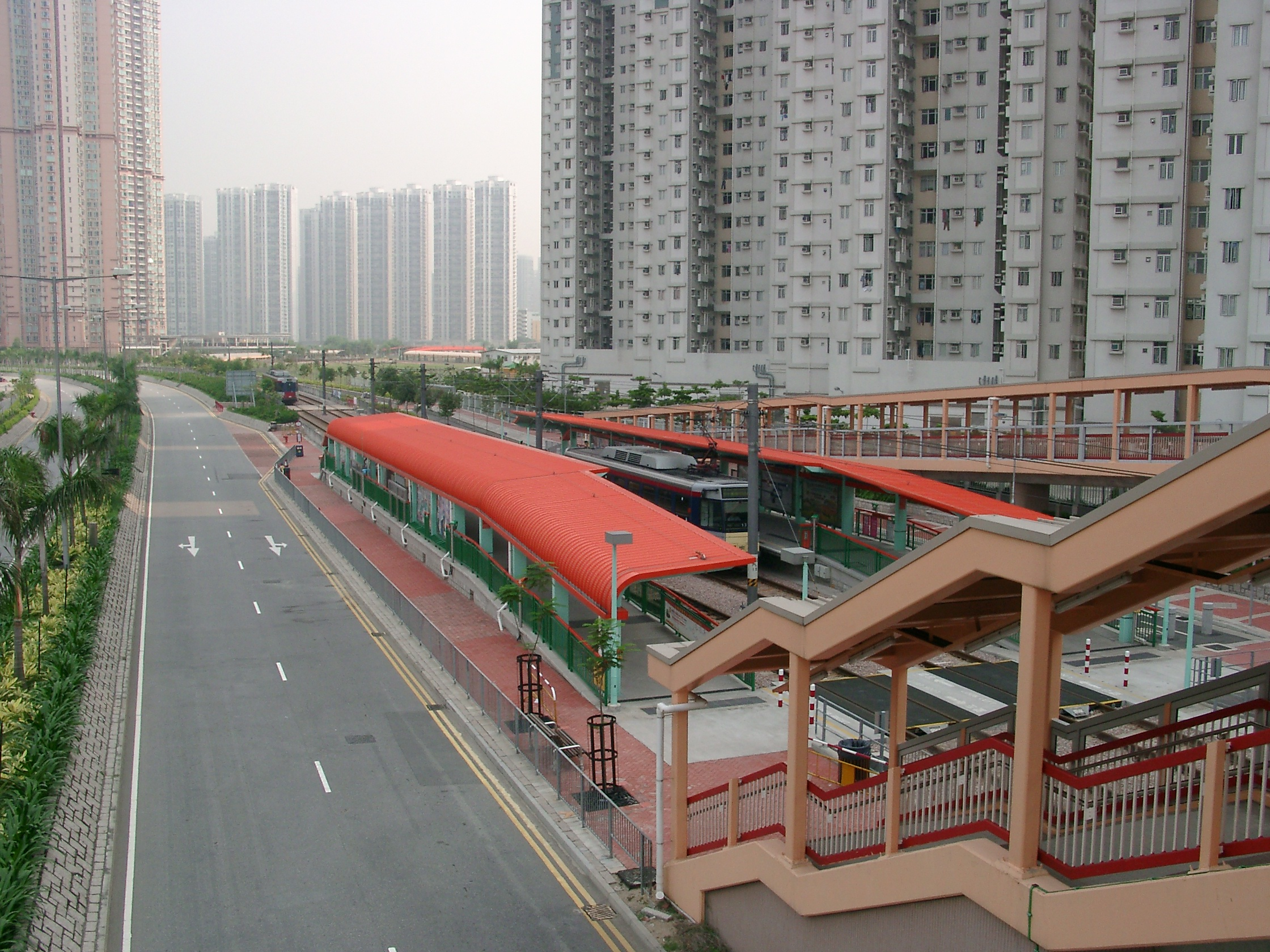 Light Rail stop at Wetland Park, Hong Kong.